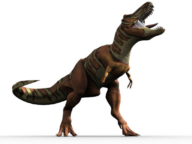 Tyrannosaurus roar